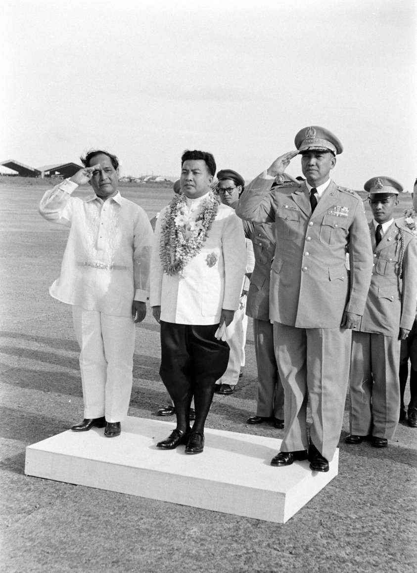 January 30, 1956: Prime Minister Norodom Sihanouk is welcomed by Vice President Carlos P. Garcia upon his arrival at the Manila International Airport.